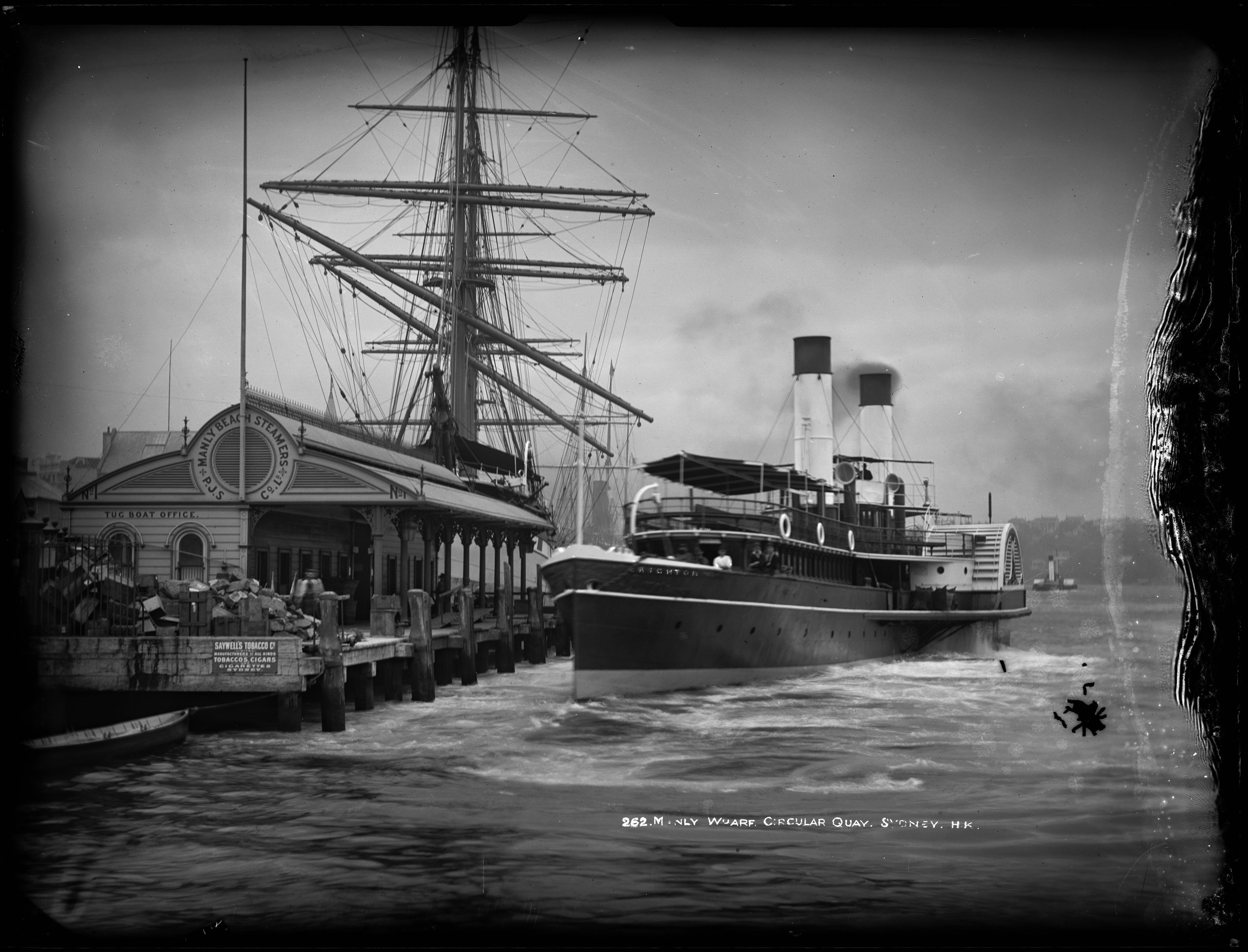 Format: Glass plate negative. Repository: Tyrrell Photographic Collection, Powerhouse Museum Part Of: Powerhouse Museum Collection General information about the Powerhouse Museum Collection is available at Persistent URL: Acquisition credit line: Gift of Australian Consolidated Press under the Taxation Incentives for the Arts Scheme, 1985